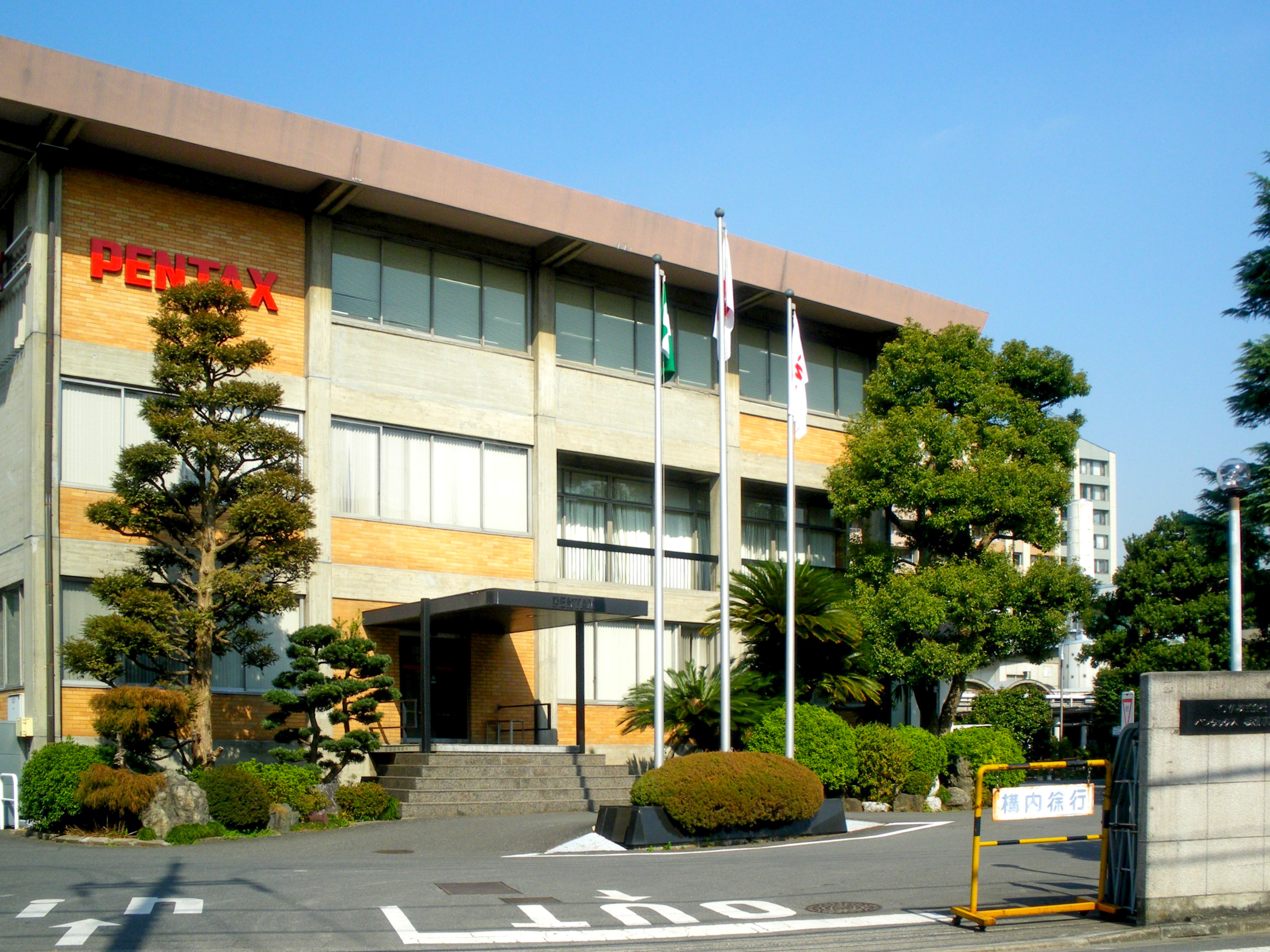 PENTAX head office until 2008 (174-0063 Tōkyō-to, Itabashi-ku, Maenochō, 2 Chome−35−7)